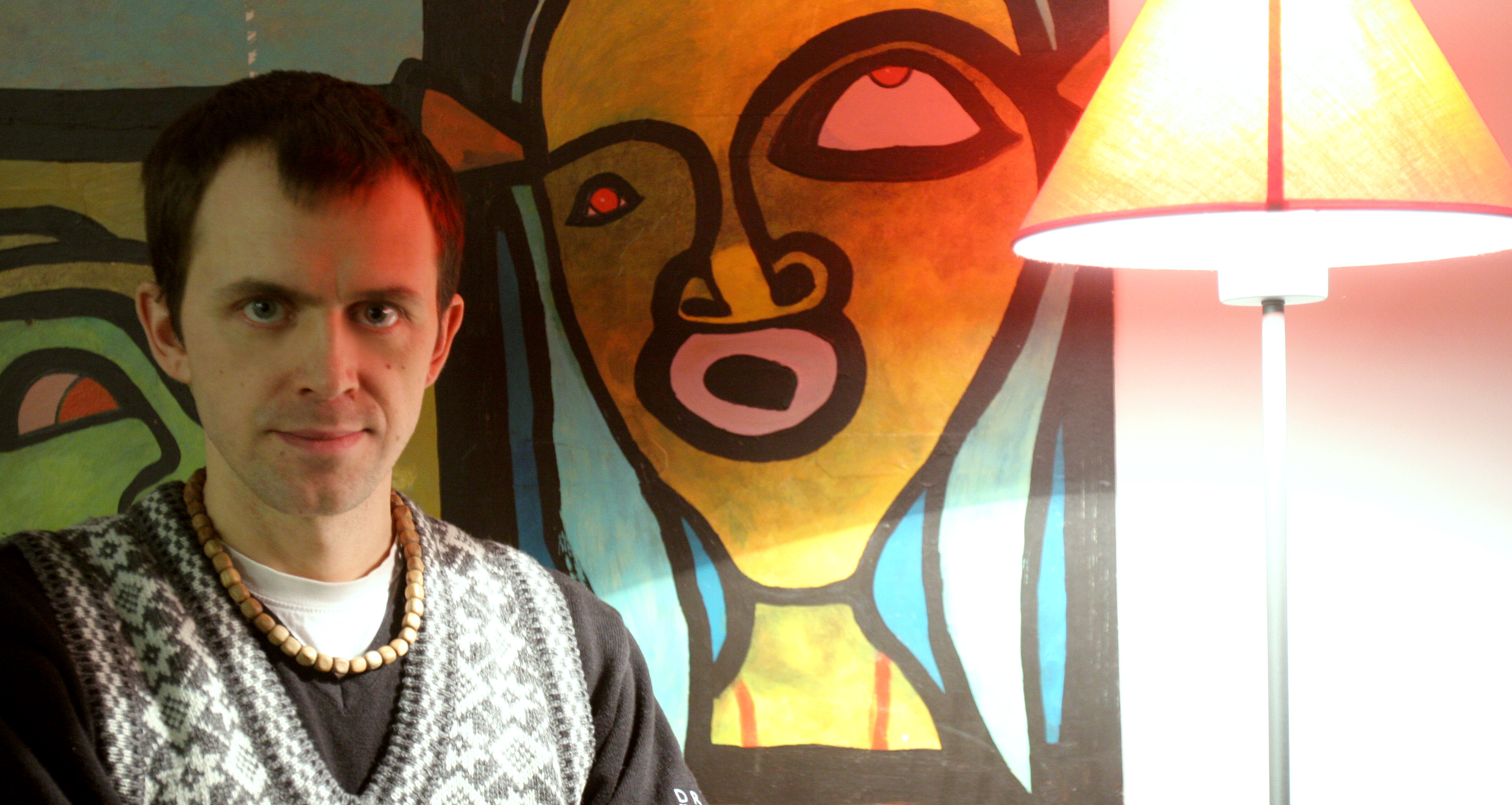 Estonian photographer Lauri Kulpsoo.